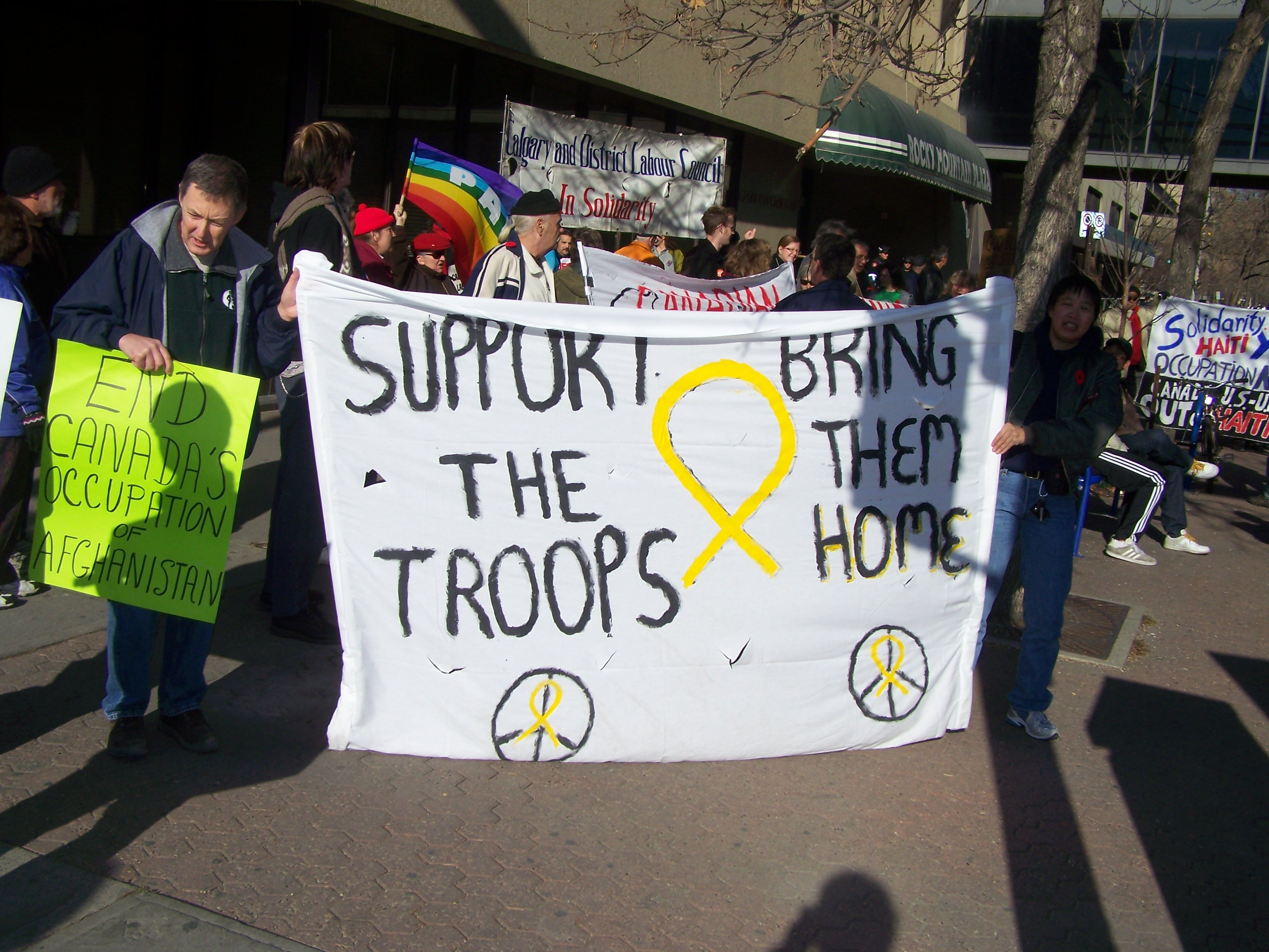 This is one of the pictures by me at the Pan-Canadian Day of Action on Canada's military involvement in Afghanistan put on by the Canadian Peace Alliance in downtown Calgary, Alberta.